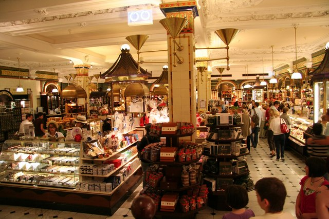 Harrods Food Hall An entire room of chocolate inside Harrods